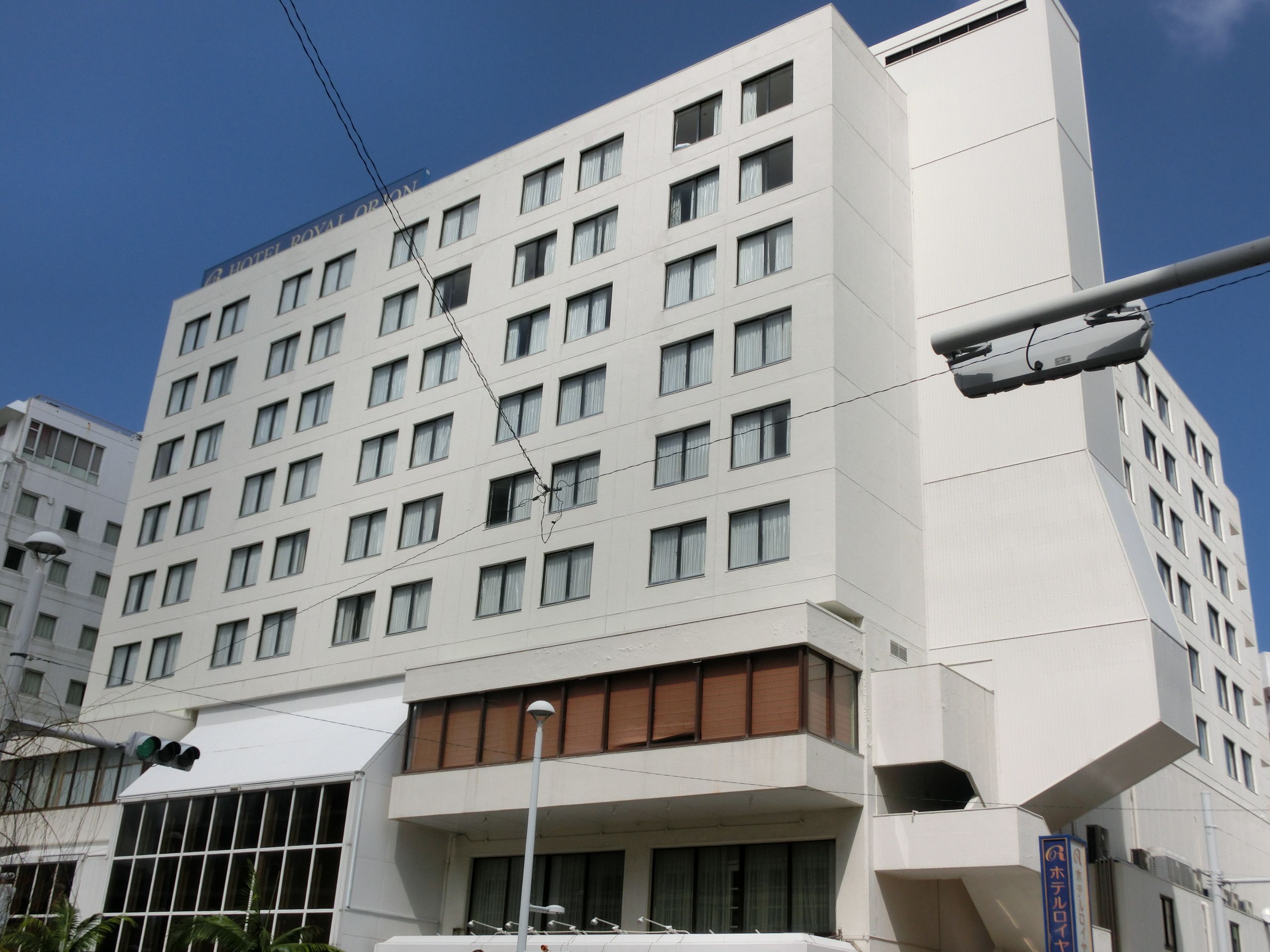 Hotel Royal Orion